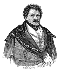 Bartolomeo Bosco (1793 - 1863), Italian illusionist